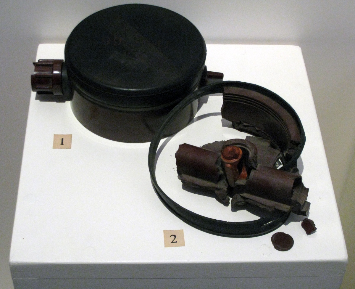 Soviet-made PMN-1 pressure-activated anti-personnel landmine, as used on the inner German border. On display at the Zonengrenz Museum, Helmstedt. NOTE:- this is definitely a PMN-1 mine. The PMN-2 anti-personnel mine looks totally different.